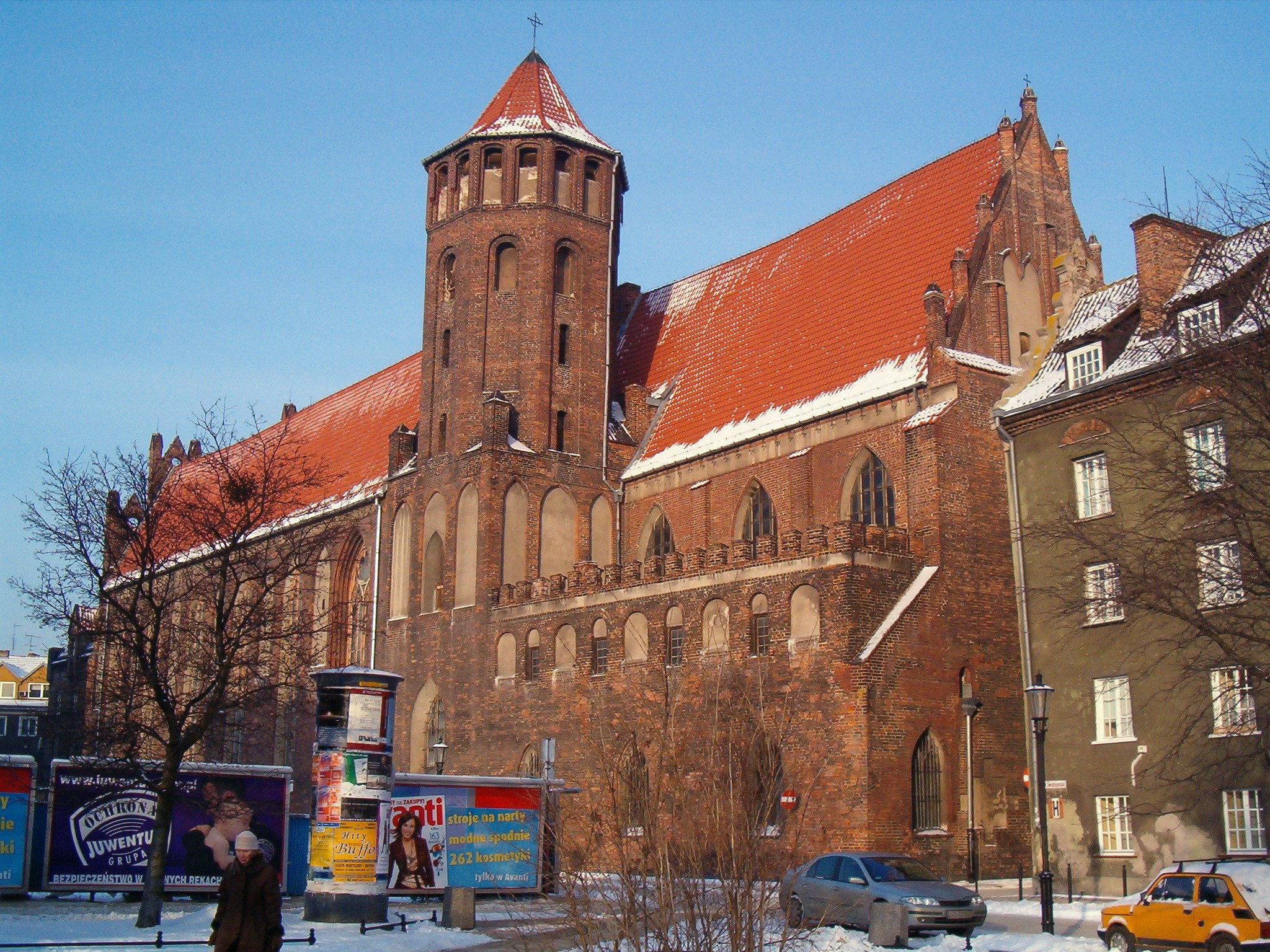 St. Nicholas church in Gdańsk (Poland).